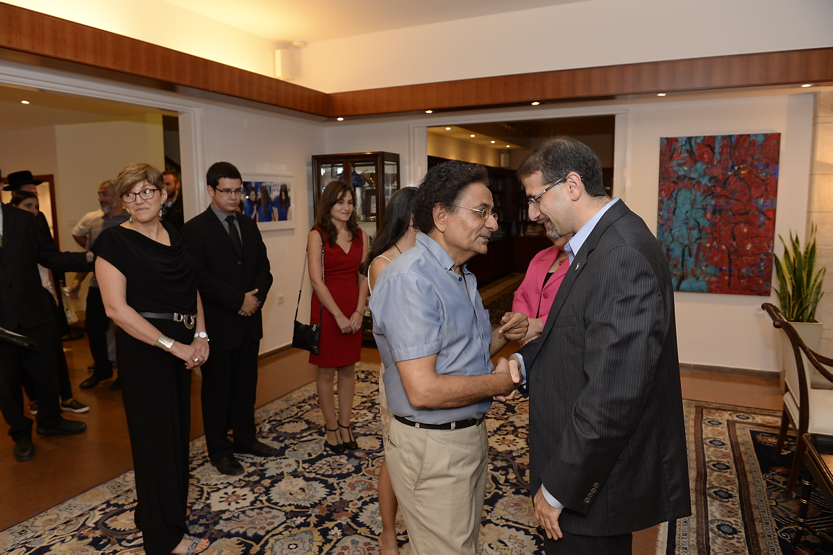 Rosh Hashanna reception at the CMR